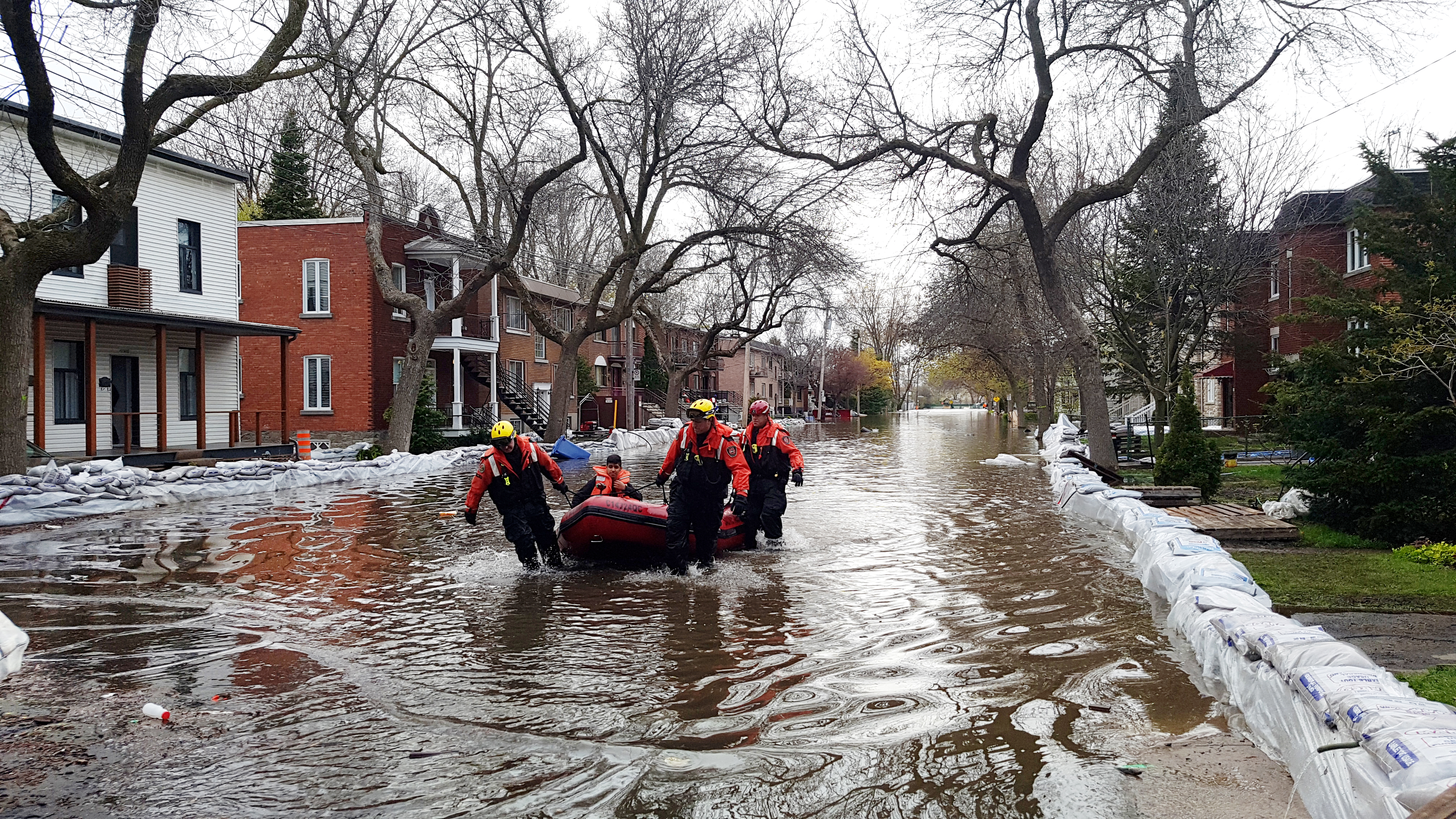 2017 QUEBEC FLOODS COMPLETE ALBUM Cartierville neighborhood of Montreal, 8 May 2017.